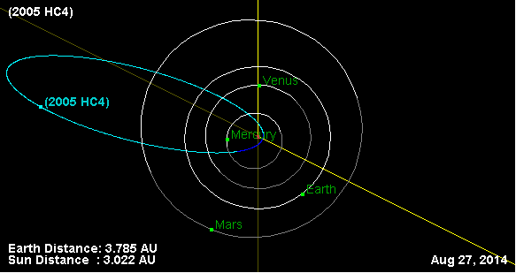 Orbit of 2005 HC4